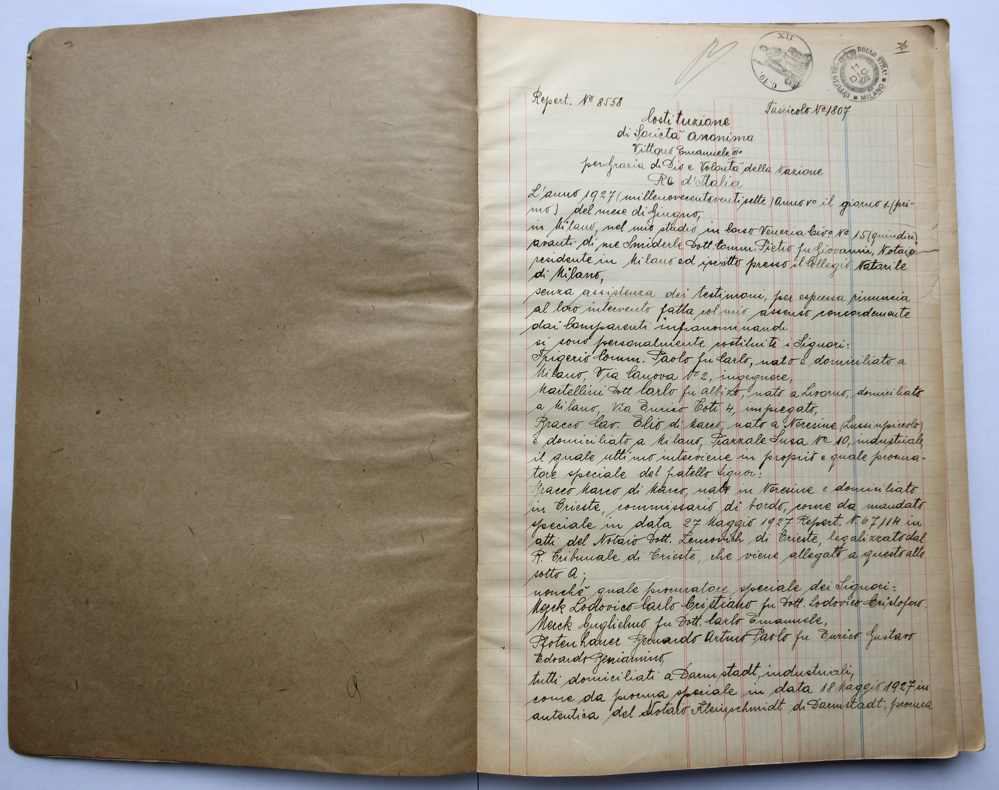 Certificate of Incorporation, June the 1st, 1927